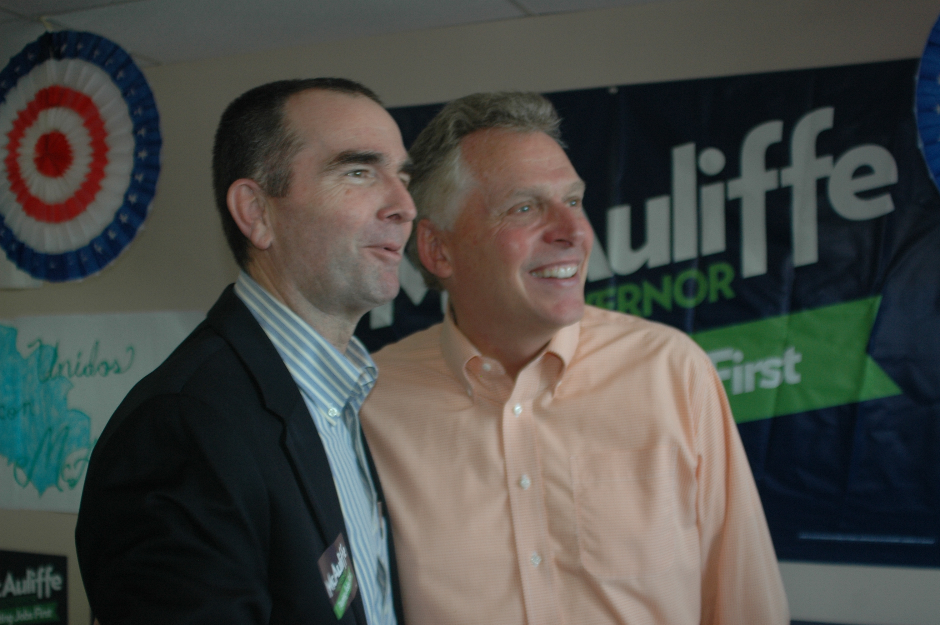 Candidates for Governor and Lt Governor, Terry McAuliffe and Ralph Northam 339